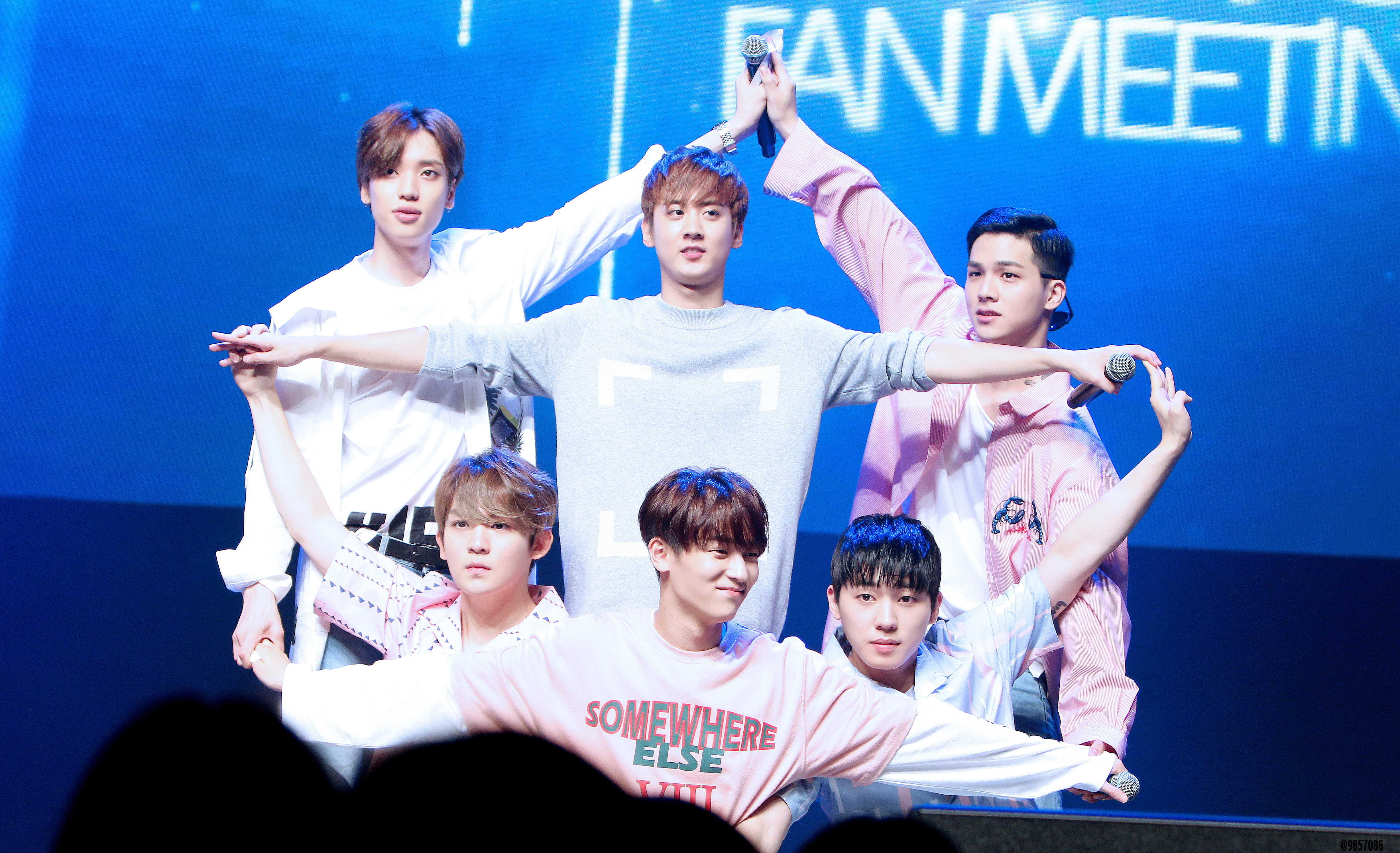 160821 Teen Top